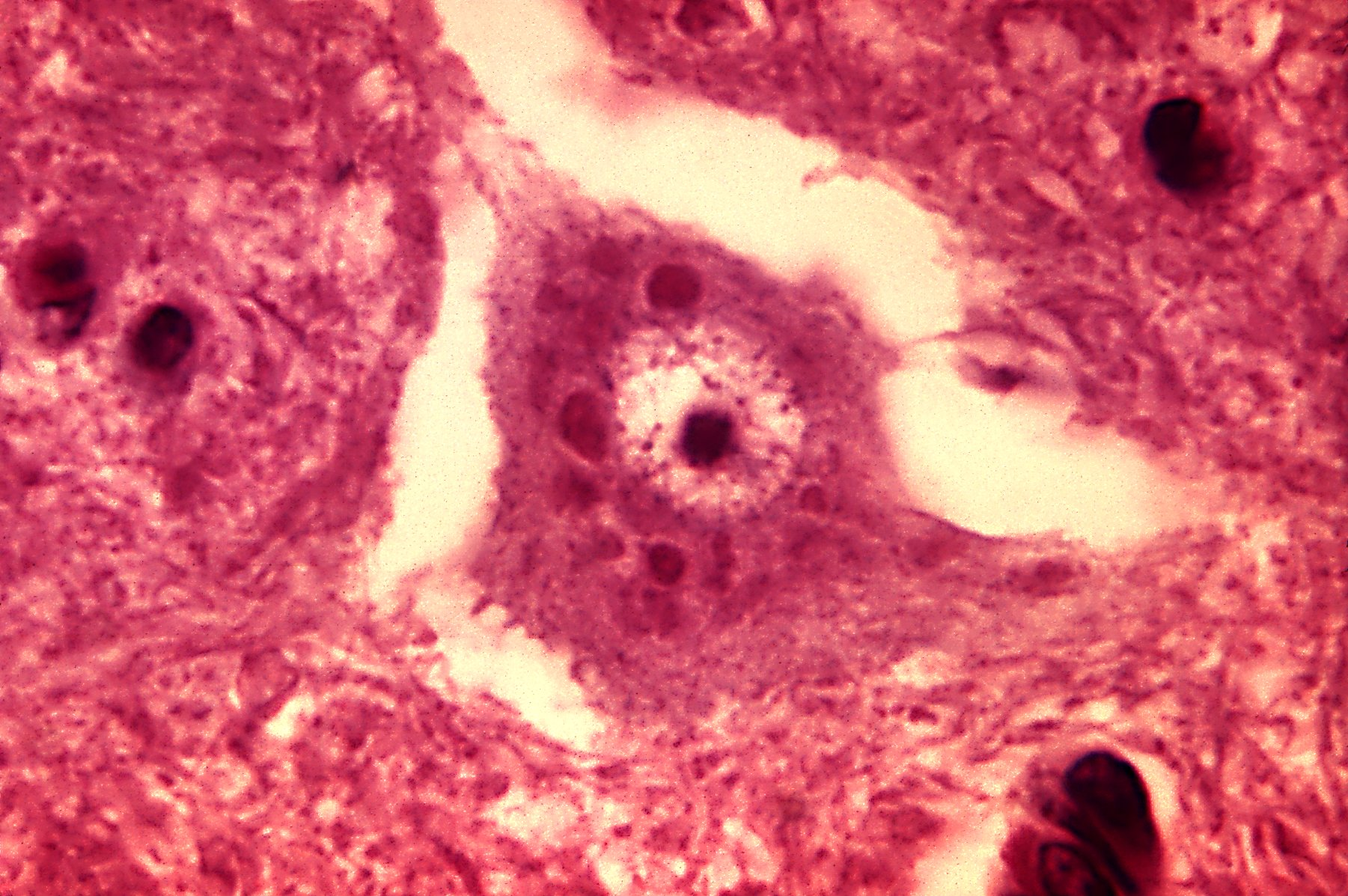 This micrograph depicts the histopathologic changes associated with rabies encephalitis prepared using an H&E stain. Note the Negri bodies, which are cellular inclusions found most frequently in the pyramidal cells of Ammon's horn, and the Purkinje cells of the cerebellum. They are also found in the cells of the medulla and various other ganglia.